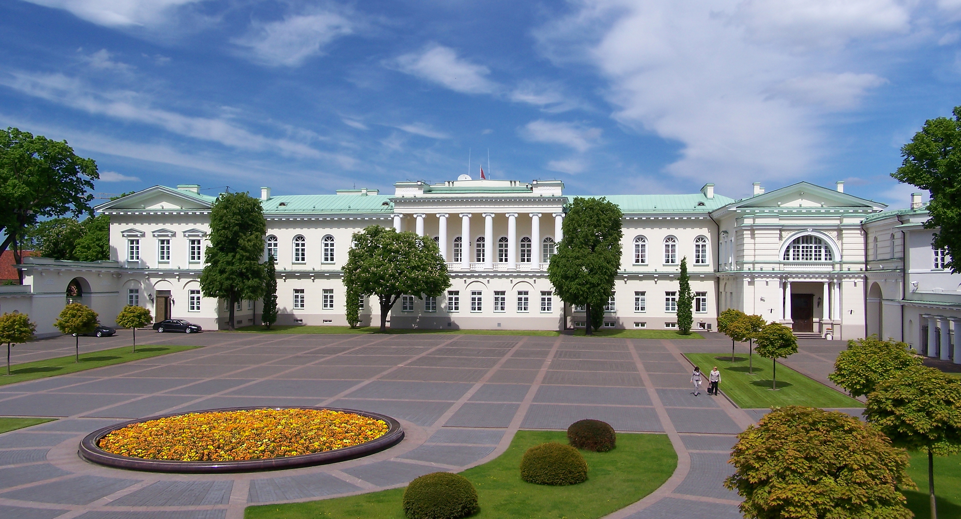 Backyard of the Presidential Palace in Vilnius (Lithuania).